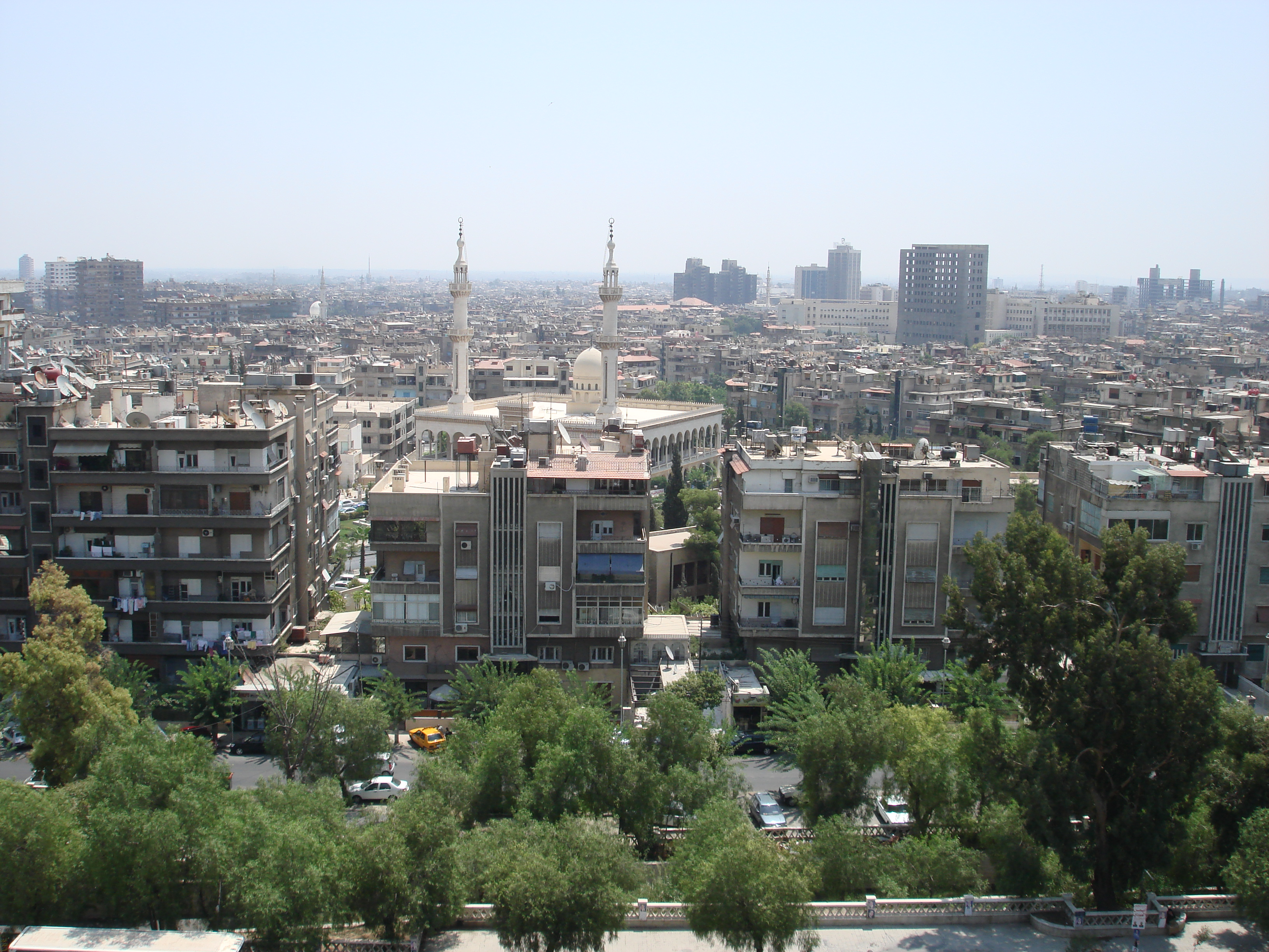 View of Damascus from Barada river bank.